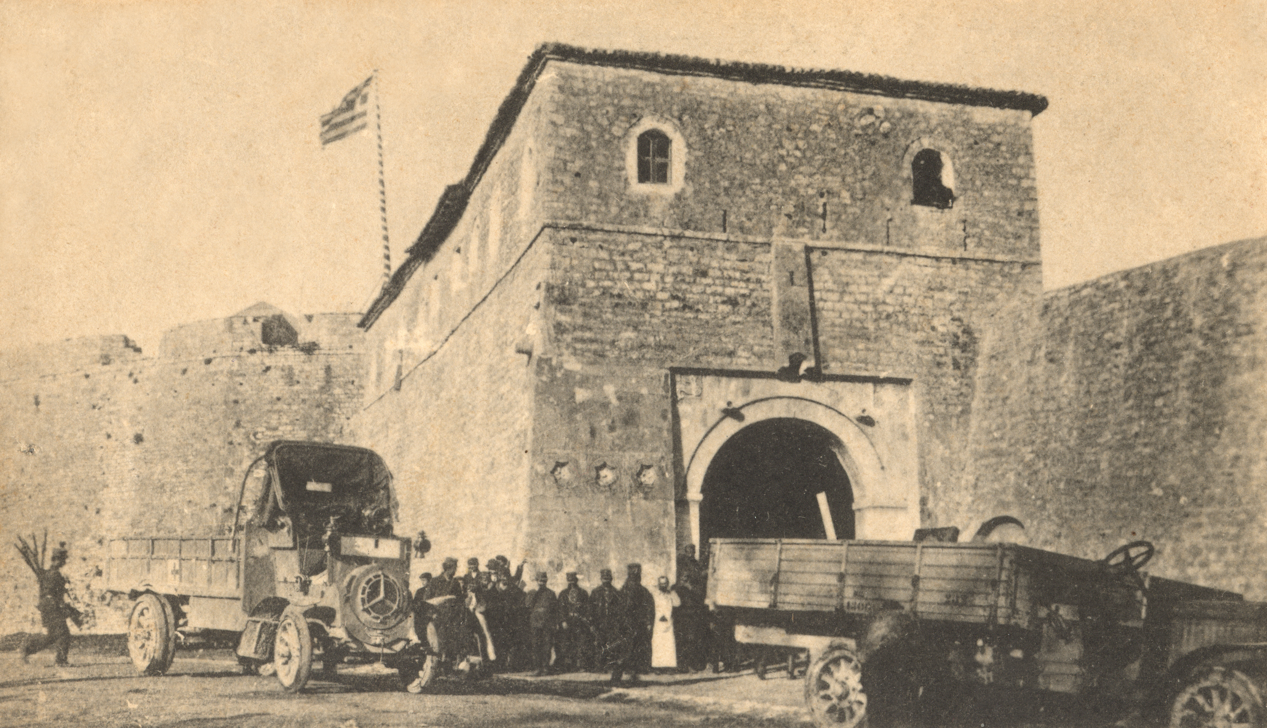 The main gate of the castle of St. Andrew, Preveza, Greece.